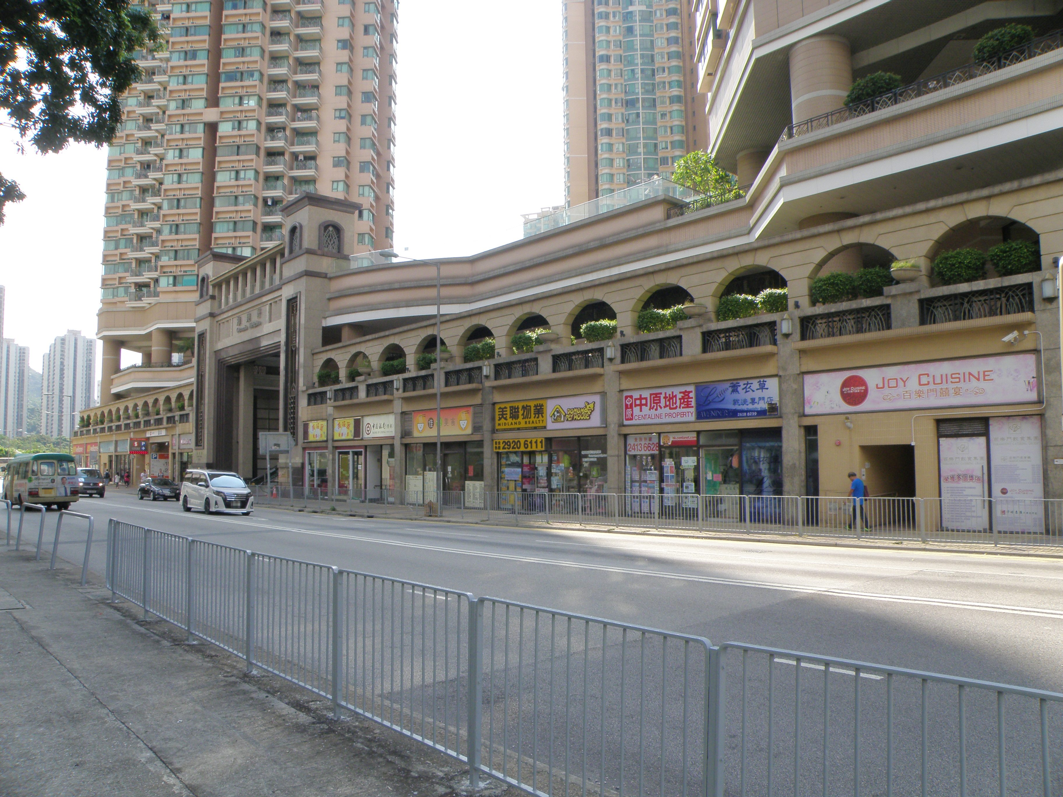 Oceania Heights in Tuen Mun, Hong Kong.